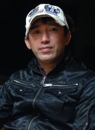 Game designer Shinji Mikami at the Tango Gameworks office.